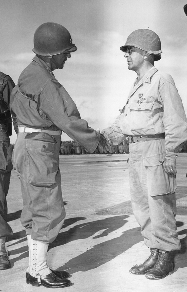 Col. Robert H. Soule (right) is awarded the Distinguished Service Cross. Luzon, Philippine Islands, 1945. 111-SC-240322